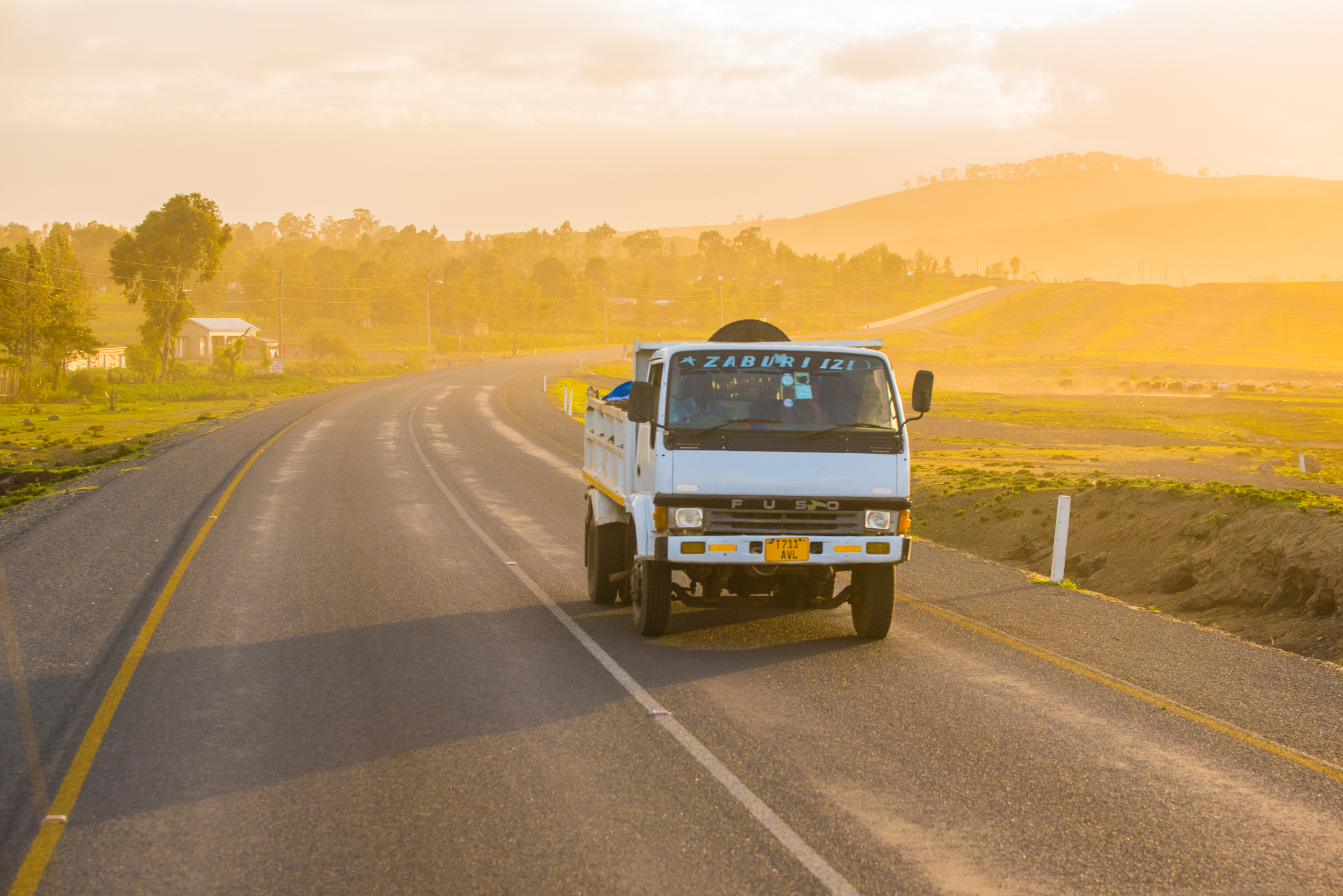 This is an image with the theme "Africa on the Move or Transport" from: Tanzania